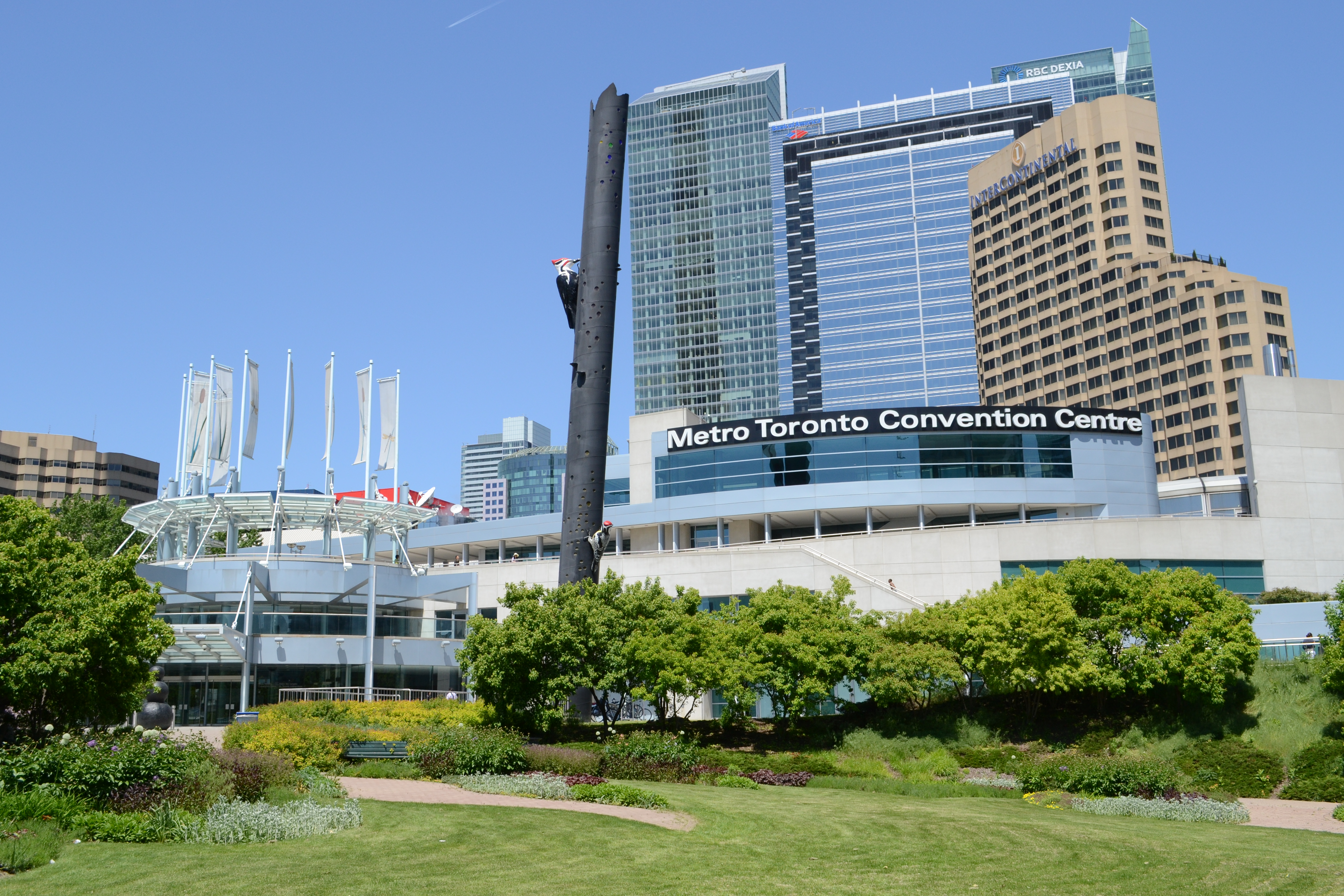 Metro Toronto Convention Center